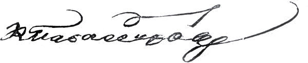 The signature of Constantine Paparrigopoulos (1815-1891), Greek historian and university professor